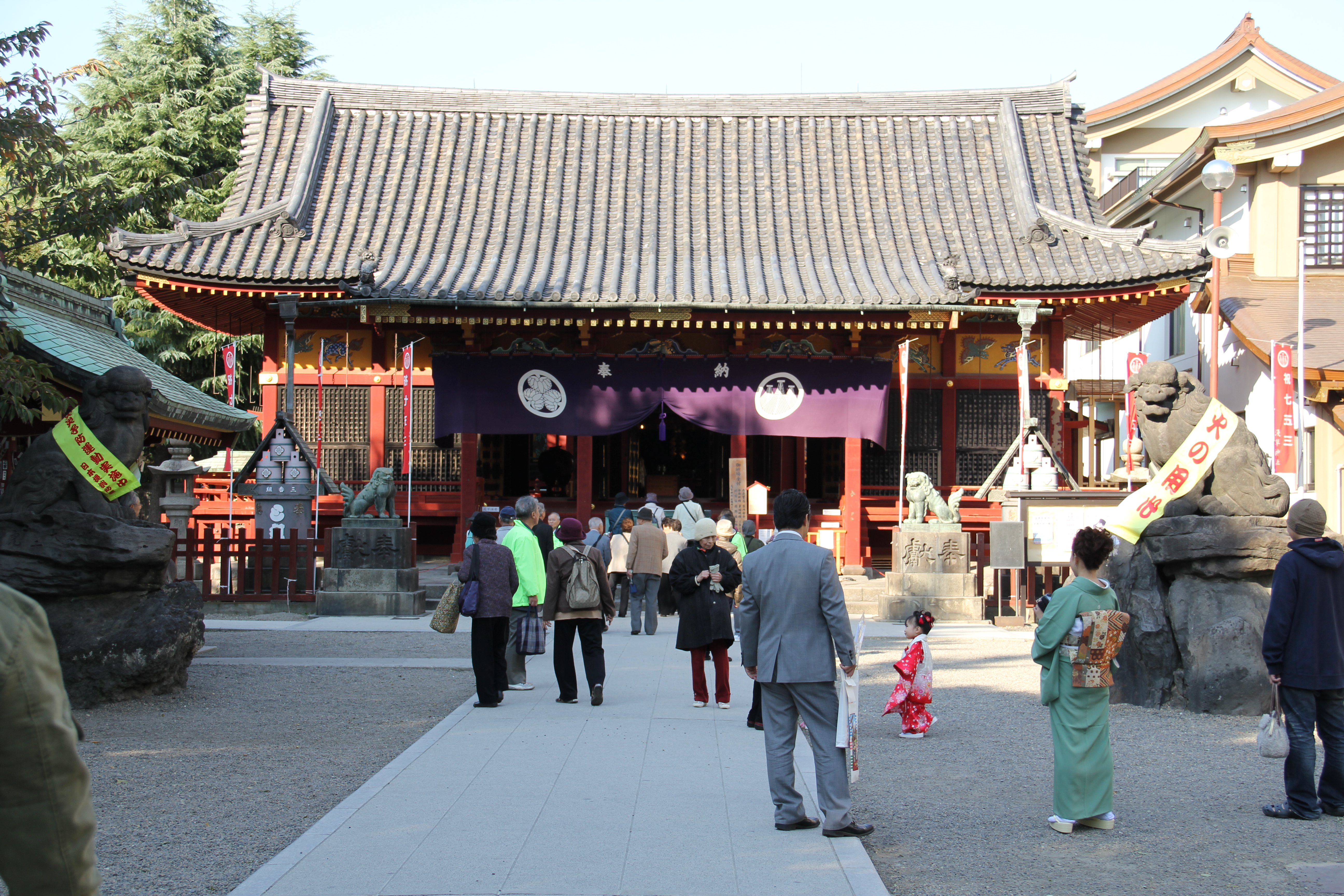 Asakusa shirine